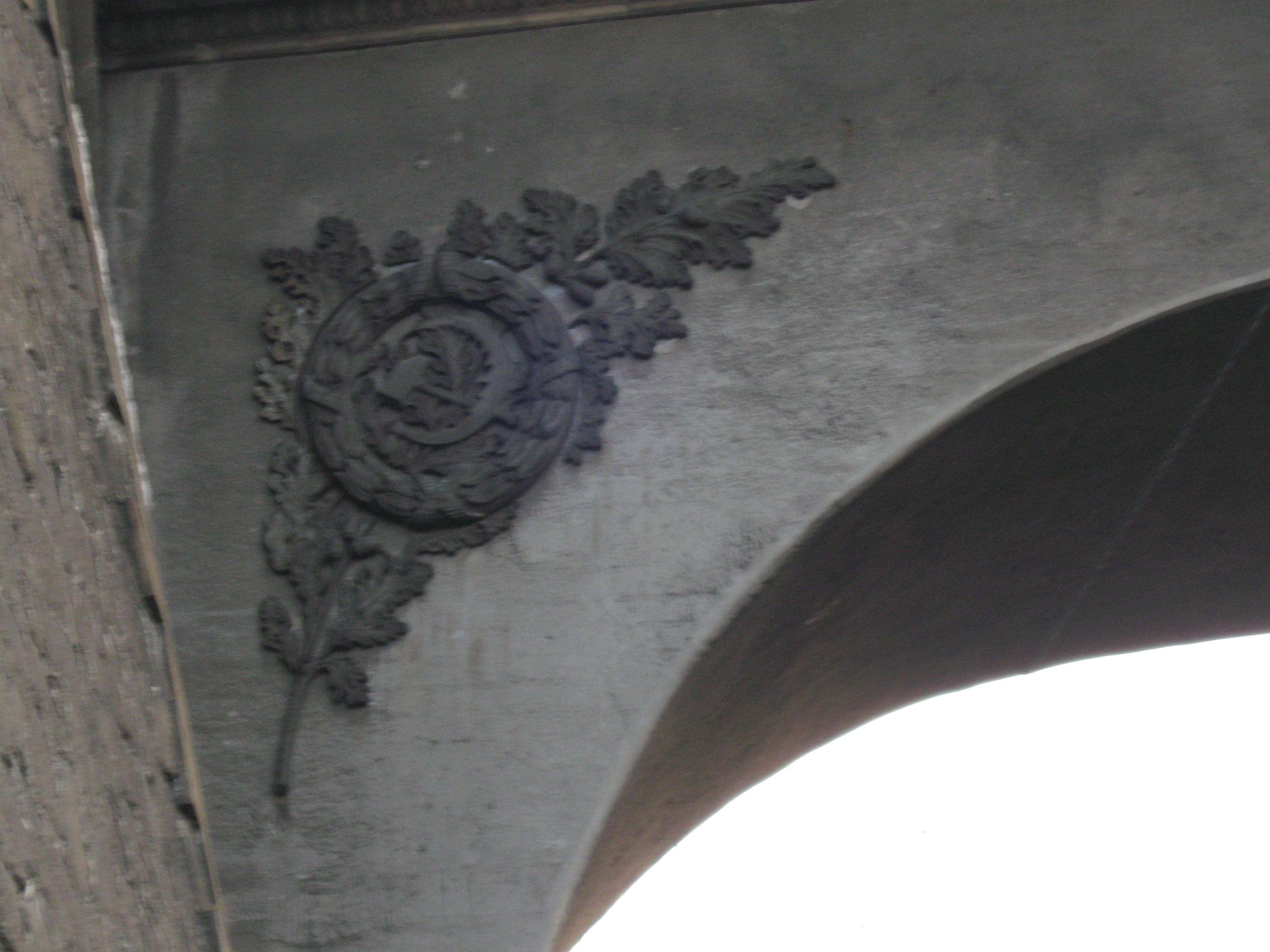 Один із чотирьох радянських барельєф (демонтовано 2016) на залізничному мосту над Вишгородською вул. в Києві